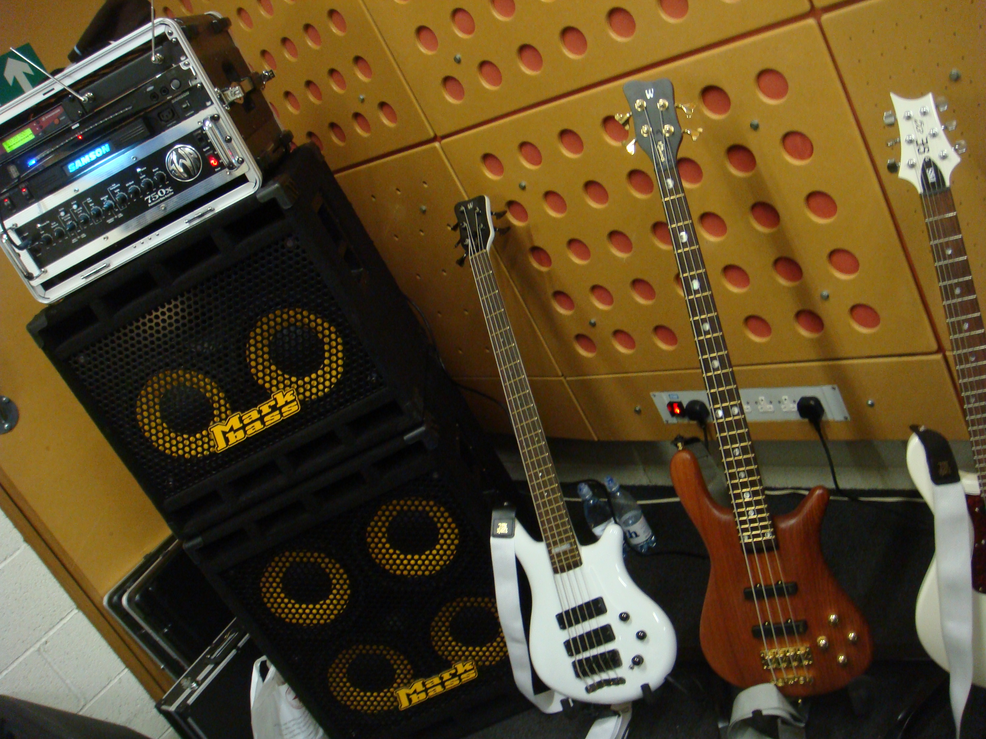 Bass Rig in Rehearsal (by Simon Doggett)